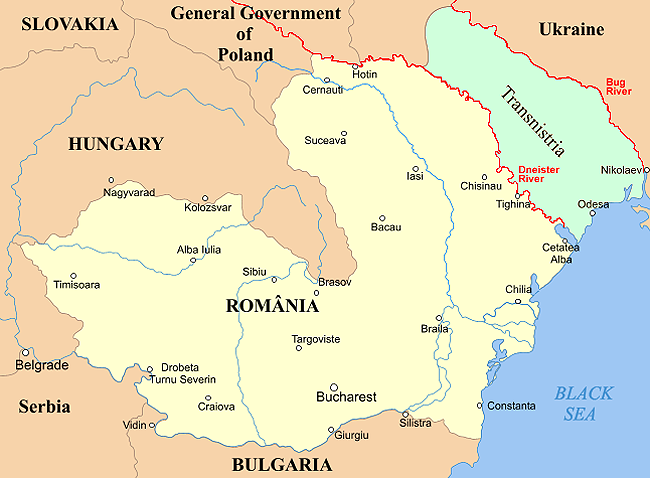 Modified the wikimedia commons file Rom 1942.png to show the two rivers that formed the boundaries of Transnistria: the Buh and the Dneister.